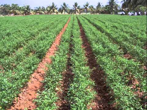 Chili field in Kunri